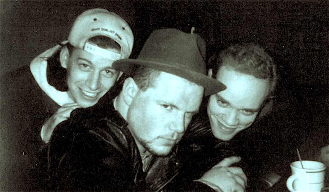 Medium Band Photo 1995